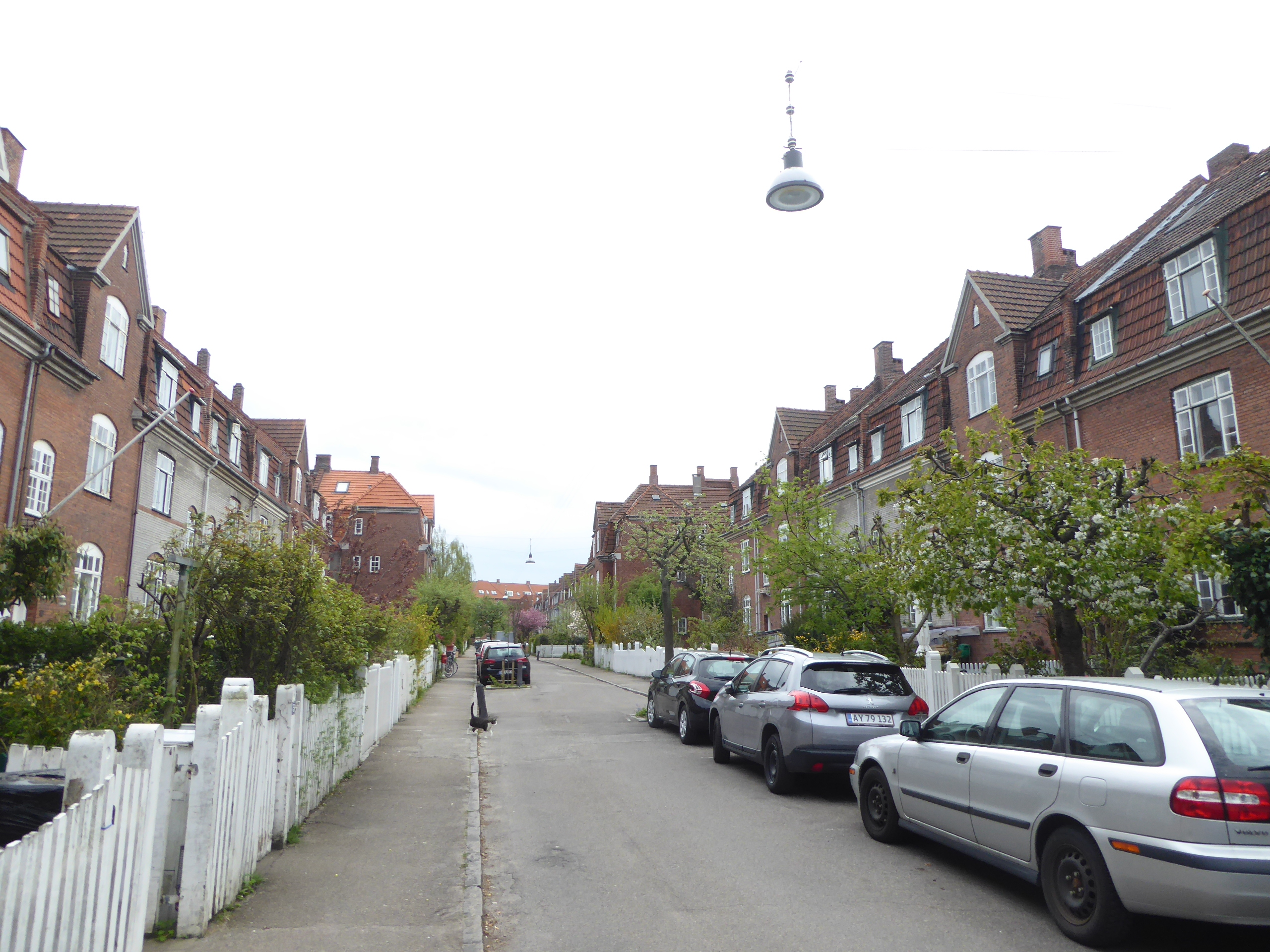 The street Valdemar Holmers Gade in Østerbro in Copenhagen.